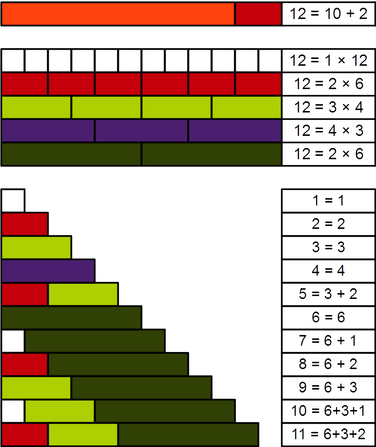 Showing, through Cuisenaire rods, that 12 is a practical number.